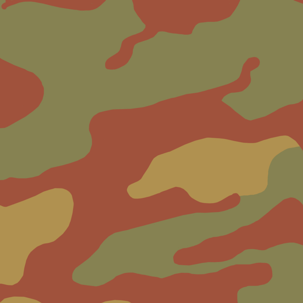 The somewhat simplified version of the M1929 Telo Mimetico - "mimick pattern". This version was used for the Italian Army and Paratrooper units in the 1960s and forward. Pattern and colour redrawn from actual specimen.